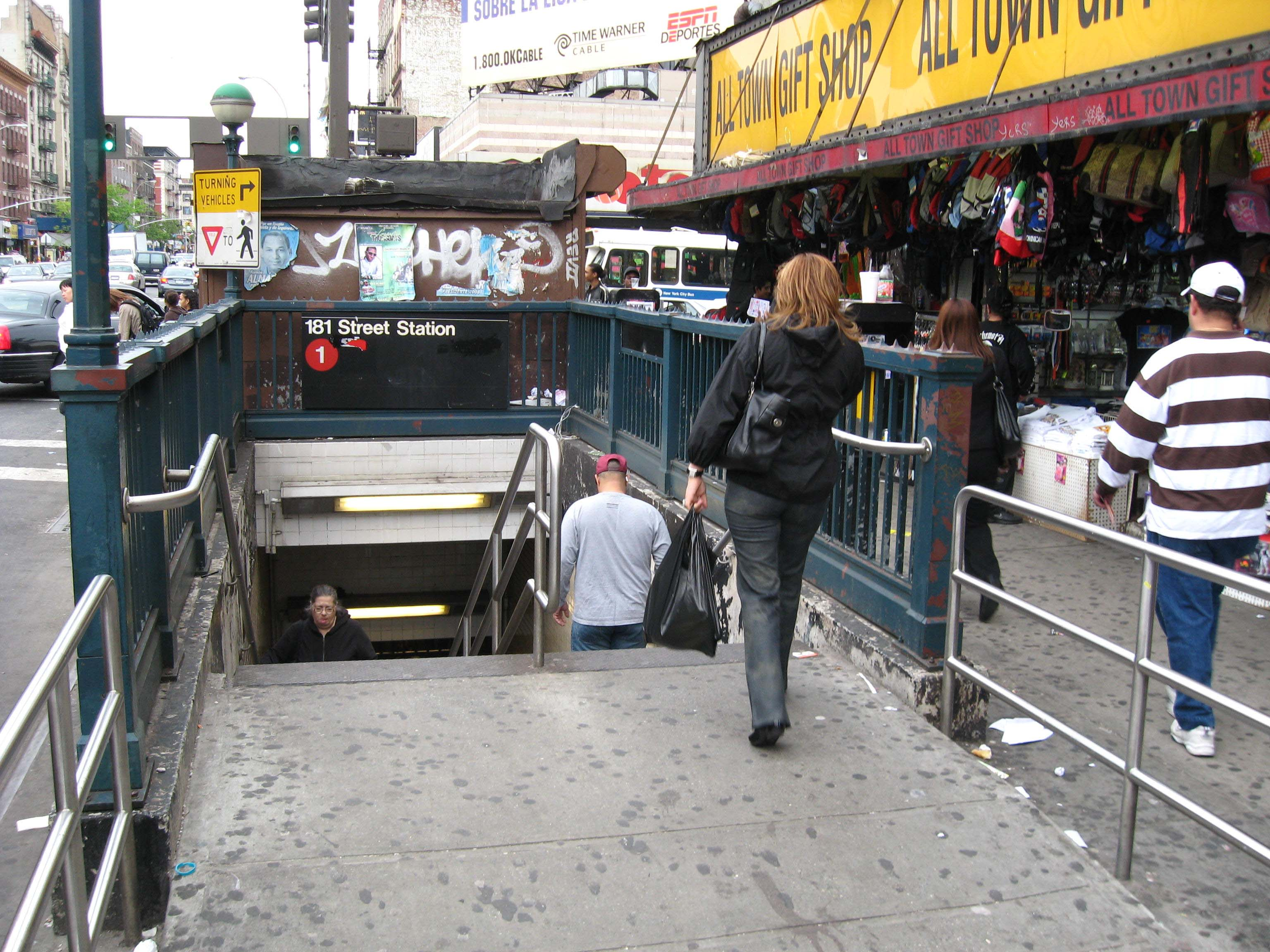 Looking north at southeastern street stair of en:181st Street (IRT Broadway–Seventh Avenue Line) on a cloudy afternoon.